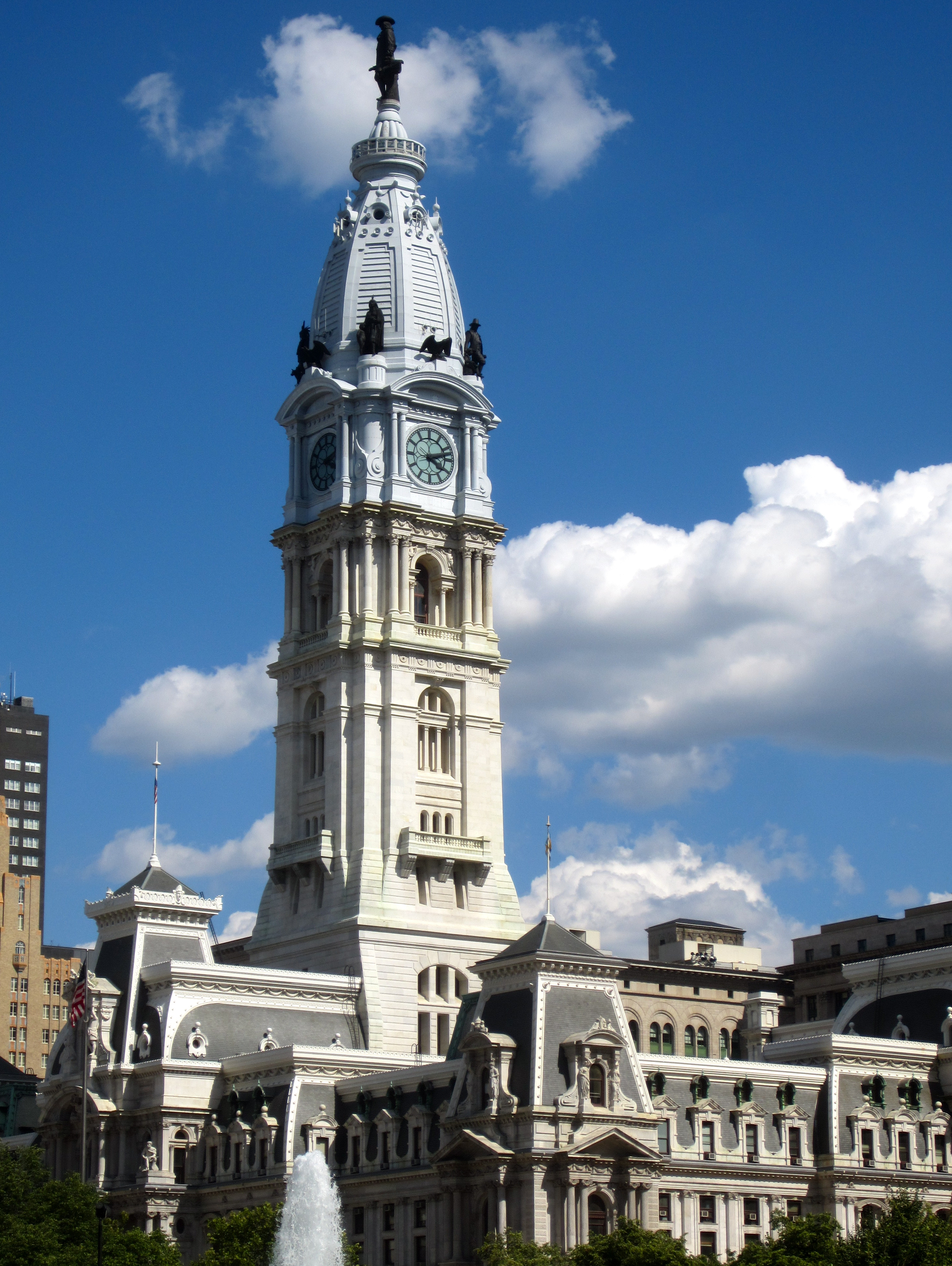 Philadelphia City Hall